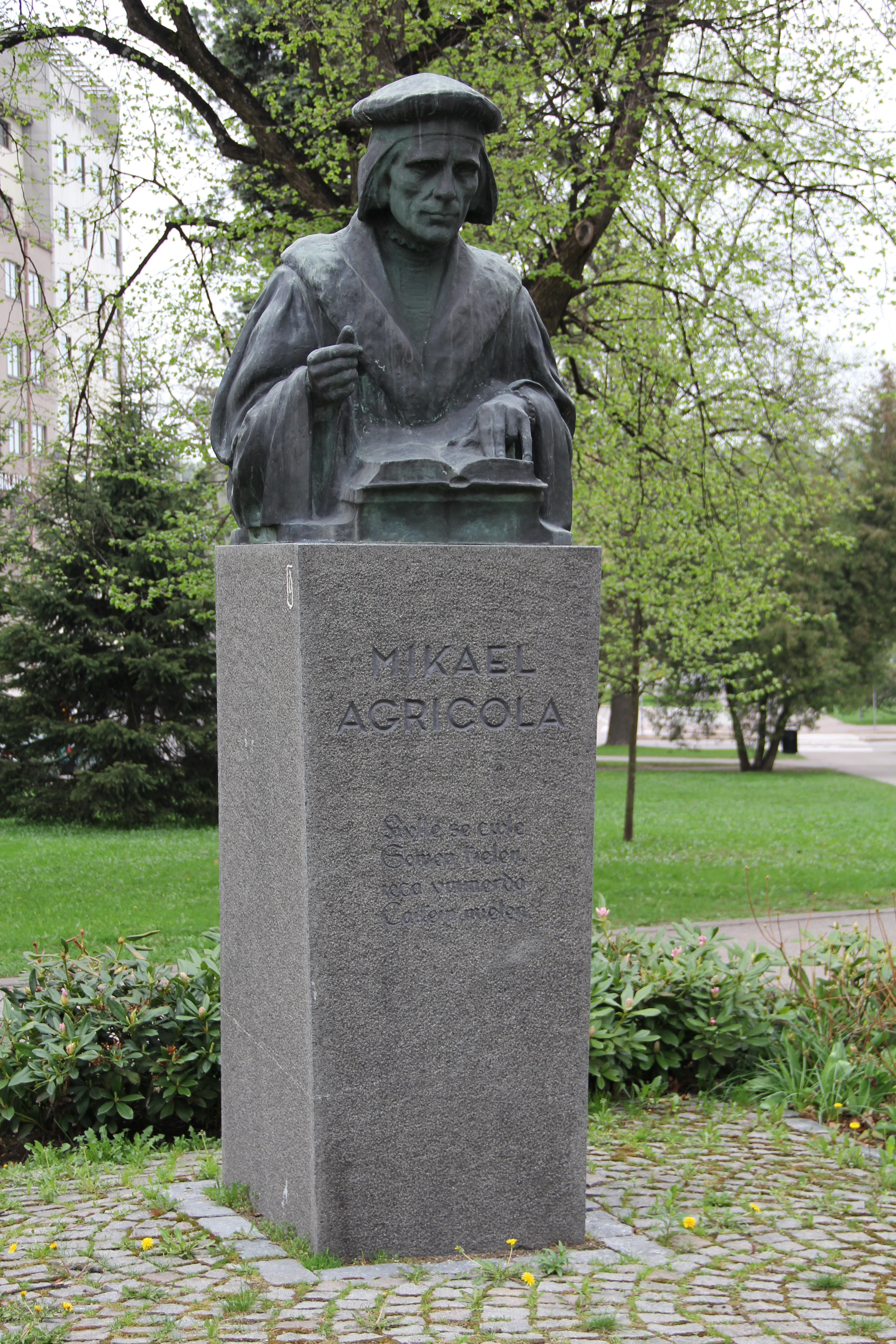 Bust of Mikael Agricola (1908/1953). Bronze bust (copy of original (1908)) by finnish sculptor Emil Wikström (1864-1942). Unvealed in 1953. Location: Erkonpuisto Park, Vuorikatu - Sibeliuksenkatu corner, Lahti, Finland.